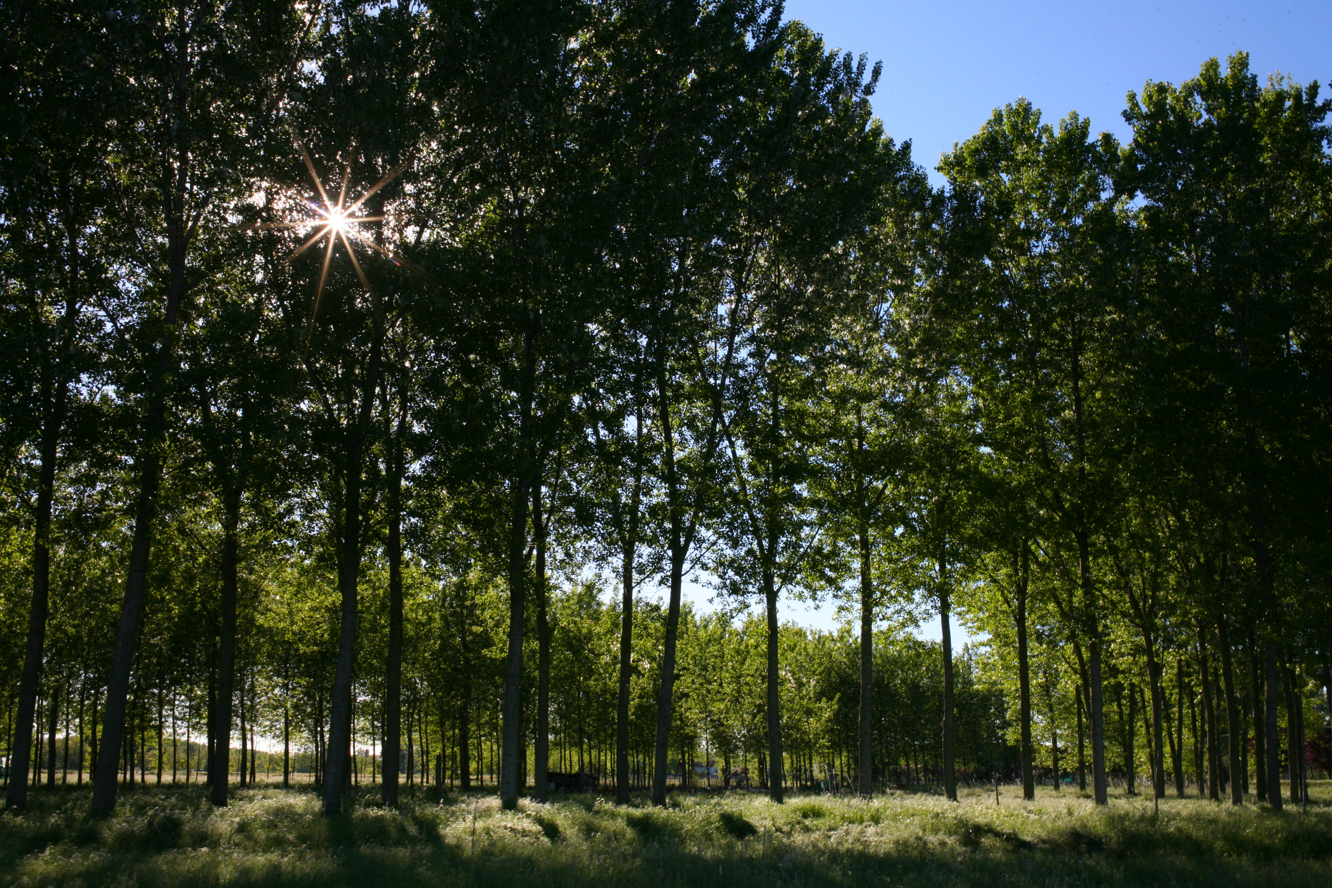 Poplars near Pavia, Lombardy, Italy